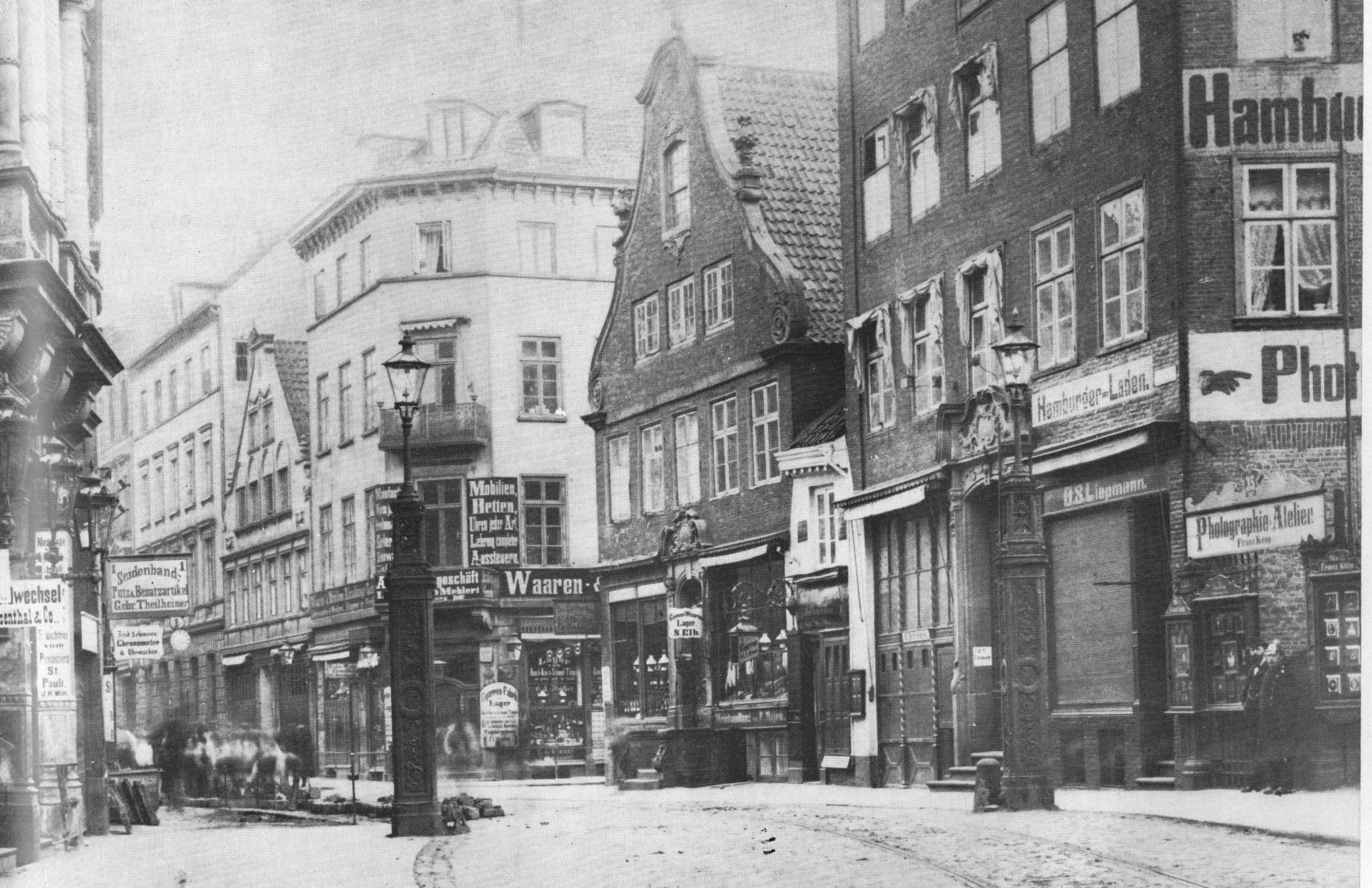 View of Nobistor, one of the border crossings between Hamburg and Holsatian/Prussian Altona, marked by one cast iron lantern post on each side of the carriageway. Behind them Reichenstrasse leading west to Grosse Bergstrasse. The sign "Waaren" is at the junction of Grosse Freiheit from the right (north).